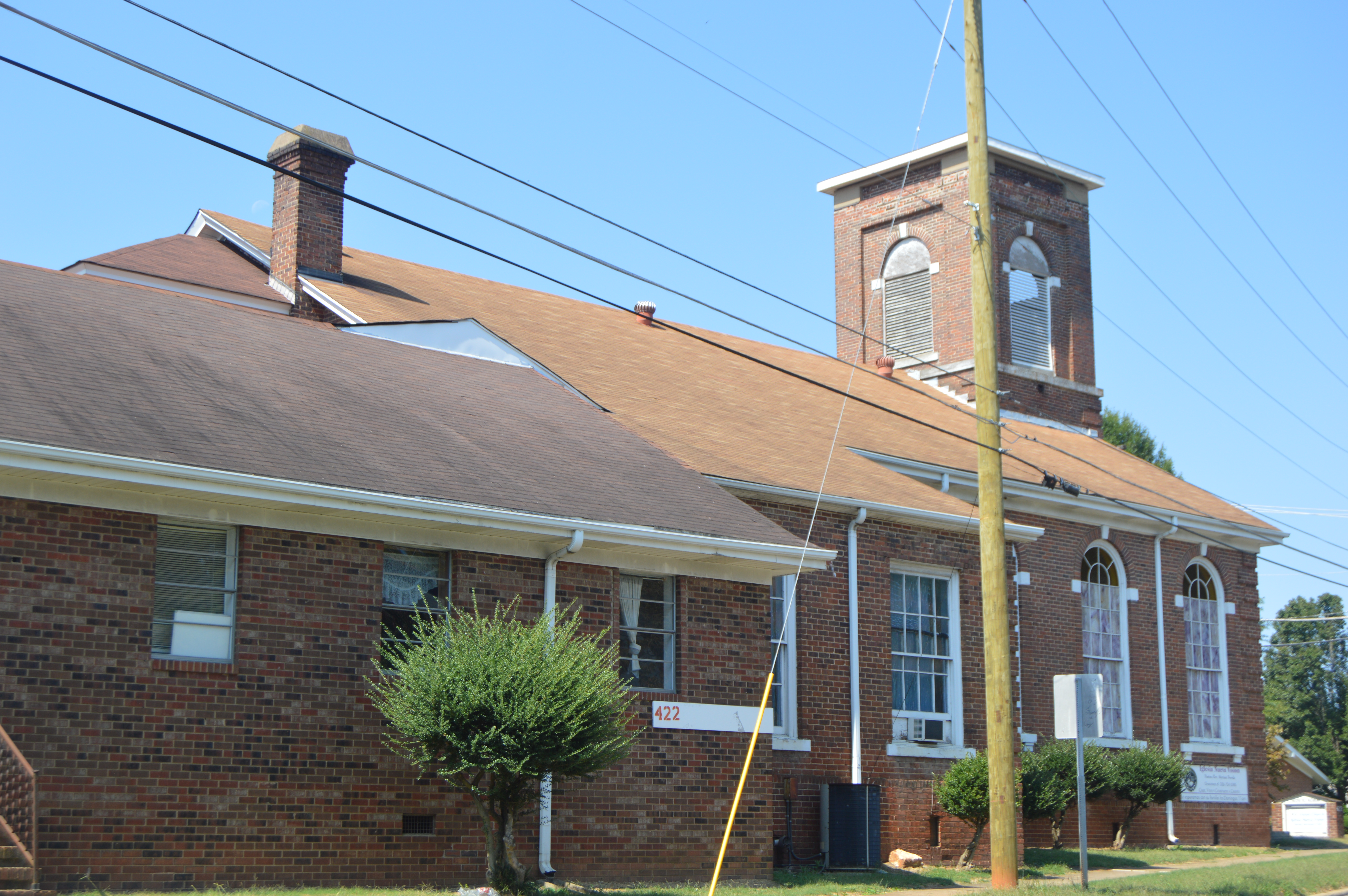 Eastern side of the New Vision Church of the Nazarene (formerly the Graham Methodist Church), located at the intersection of Main, Hill, and Maple Streets in Graham, North Carolina, United States. Built in 1914, it is part of the North Main Street Historic District, a historic district that is listed on the National Register of Historic Places.